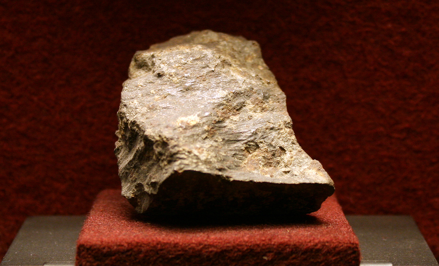 Piece of the meteorite of L'Aigle (fallen on 26. April 1803) in the collection of Naturhistorisches Museum in Vienna)